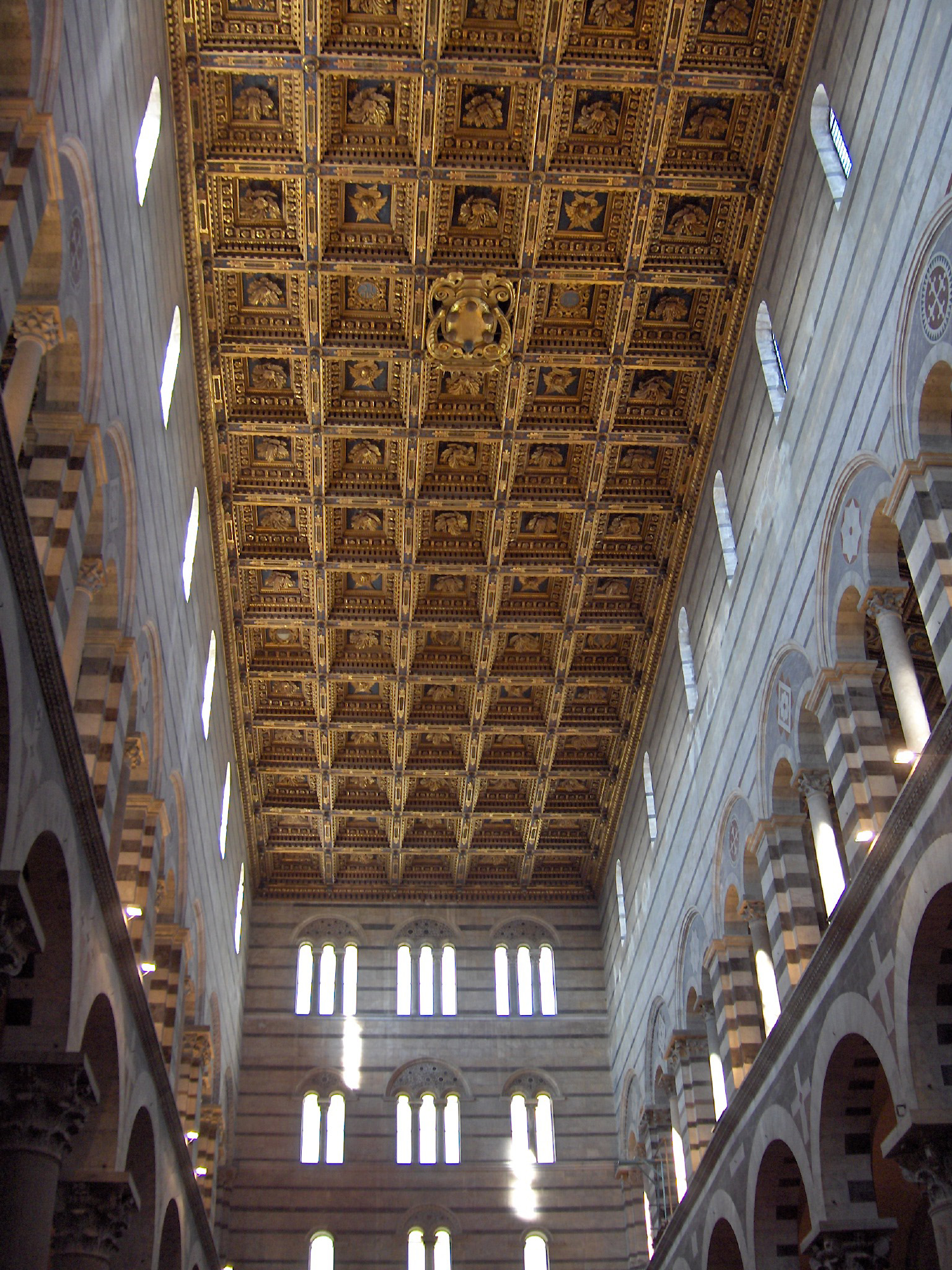 Coffer ceiling (with coat of arms of the Medici) of the cathedral; Pisa, Italy Own photo